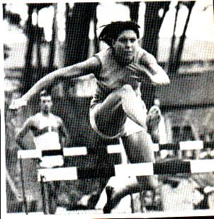 Magaly Vettorazzo in a race in Italy in 1960s